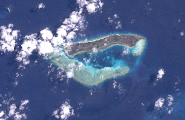 This image (Landsat7) shows Wari Island in the Louisiade Archipelago, Papua New Guinea.